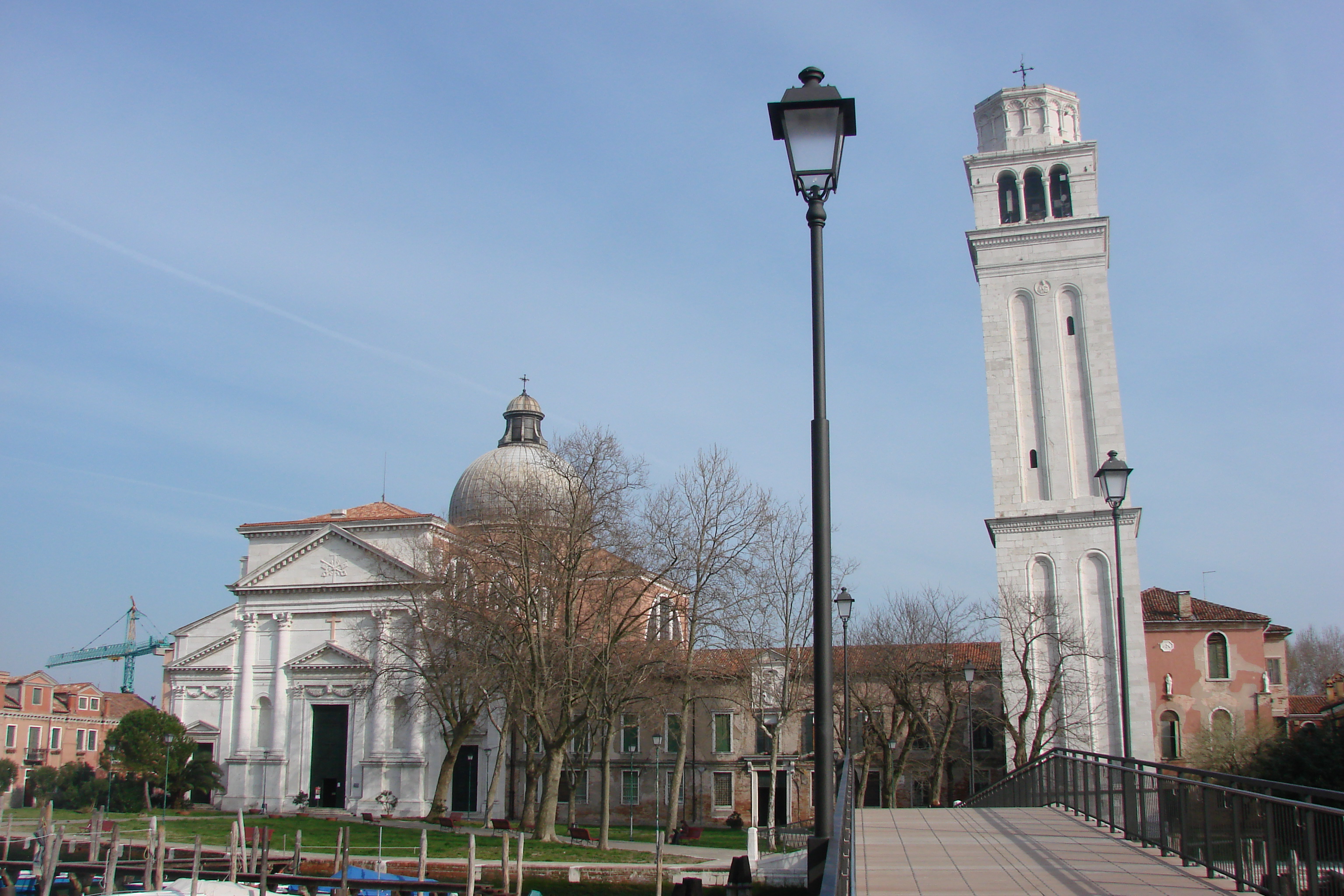 Church San Pietro in Castello Venice